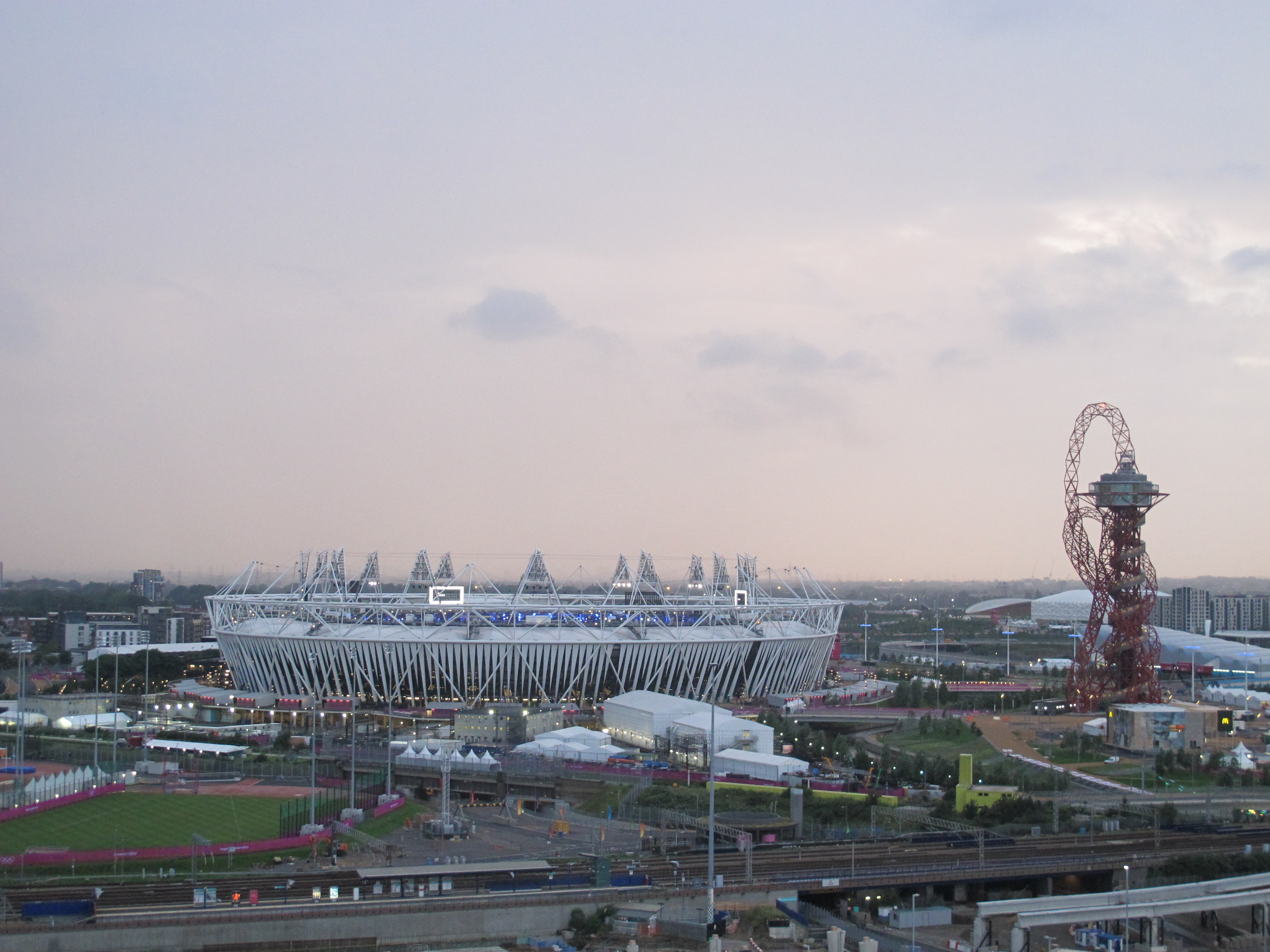 The Olympic Stadium and the Orbit Tower. To the front left is the practice track and to the right a McDonalds.